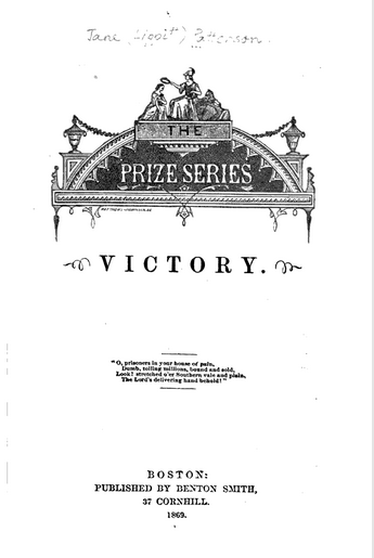 "Victory" (1869), by Jane Lippitt Patterson